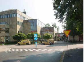 Jönköpings community library